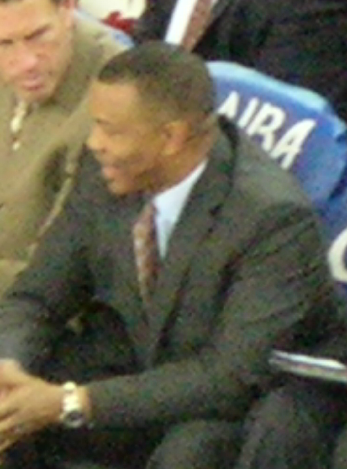 Phoenix Suns head coach Alvin Gentry at a road game against the Golden State Warriors. The Suns won 154-130.